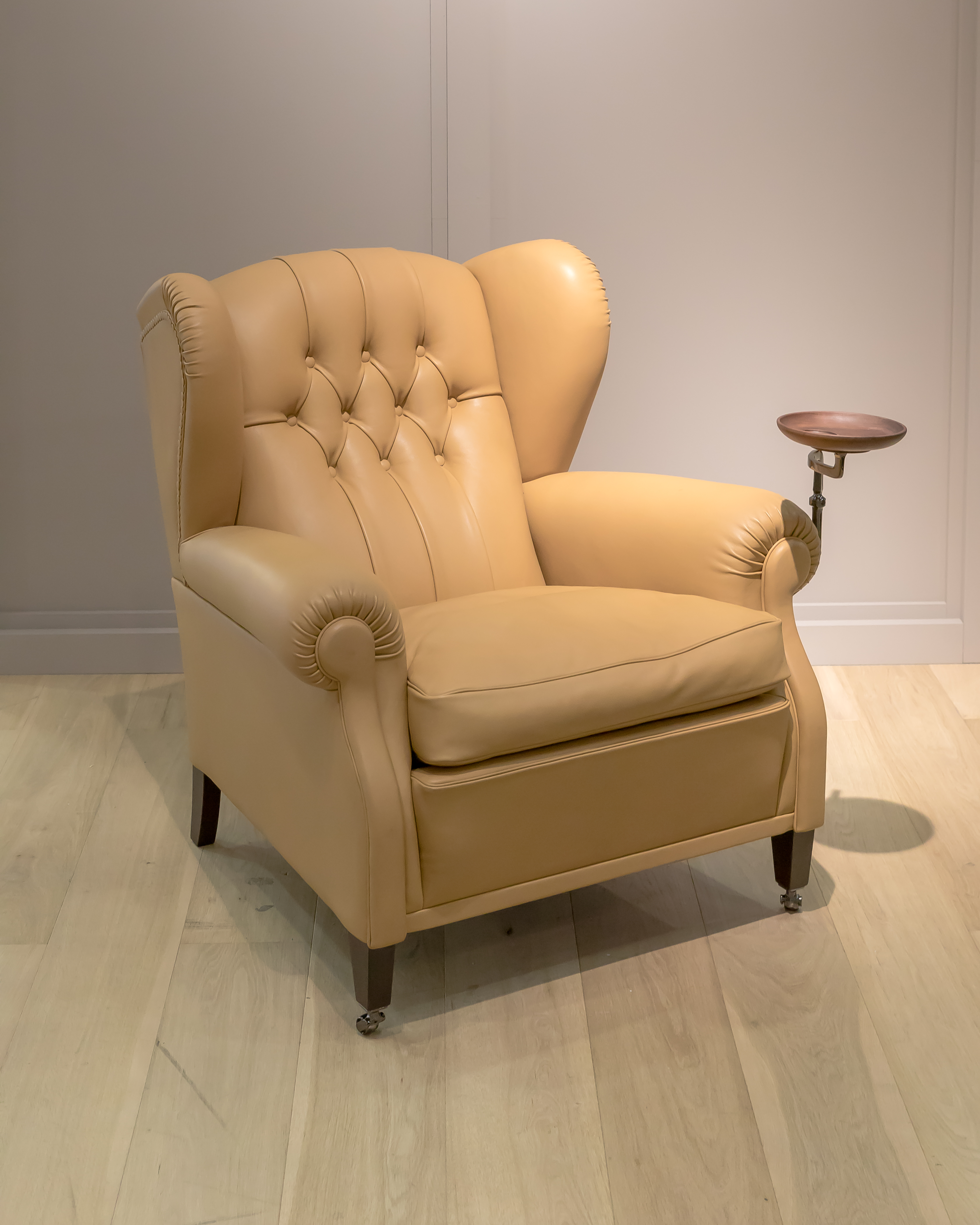 Passenger Experience Week 2018, Hamburg